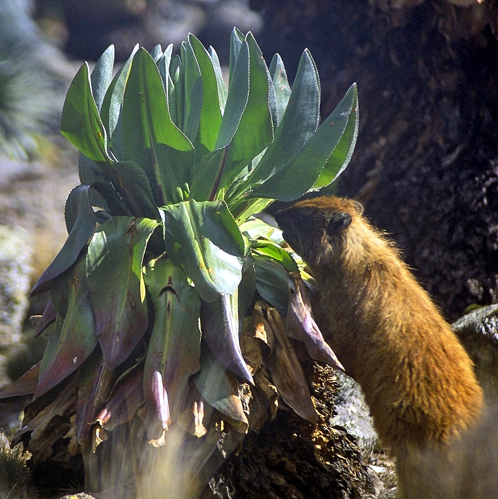 Rock hyrax (? ?) eating a giant groundsel Dendrosenecio keniensis on Mount Kenya